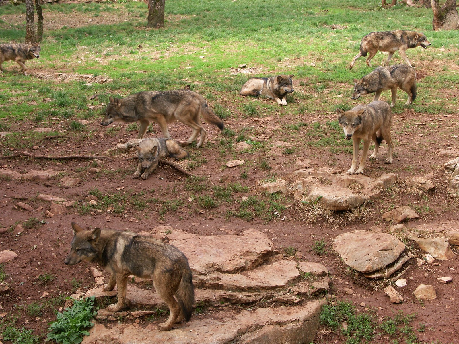 Wolfs pack (Canis lupus) in animal park of Gramat in France.